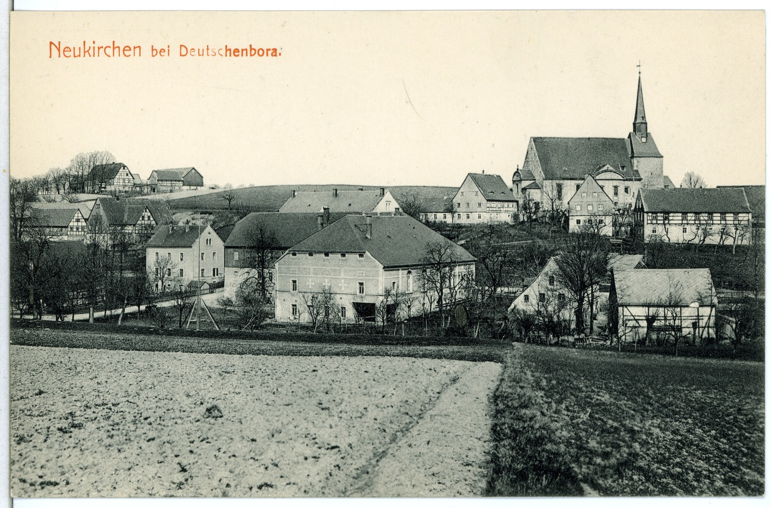 This postcard is from publisher Brück & Sohn in Meißen ( This postcard has a unique number 07190 and is available in a higher resolution at the publisher. This images was uploaded in a cooperation project between Wikipedians and the publisher.